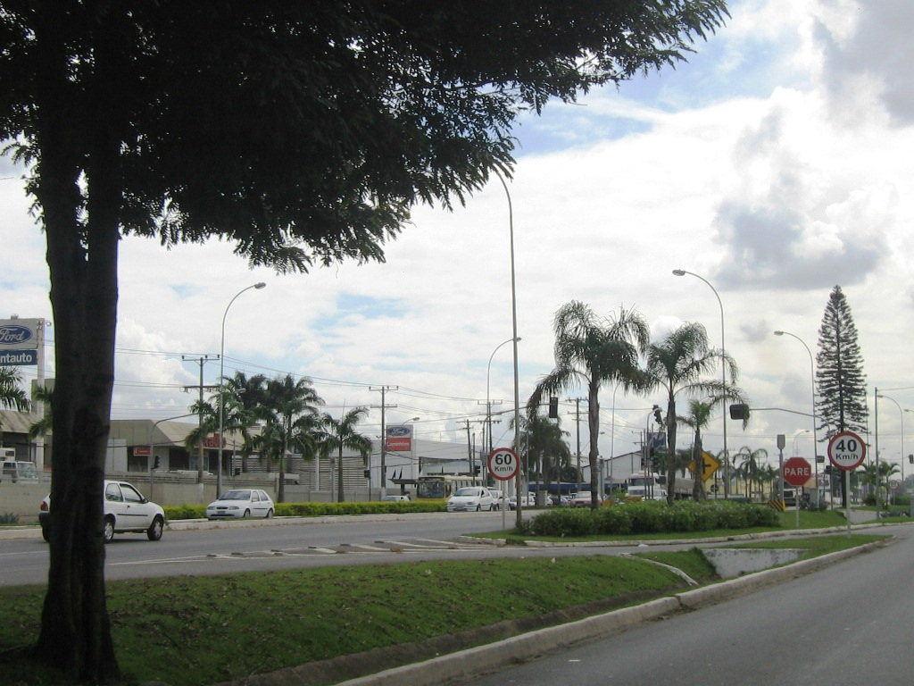 BR-101 in Serra, Espírito Santo, Brazil.